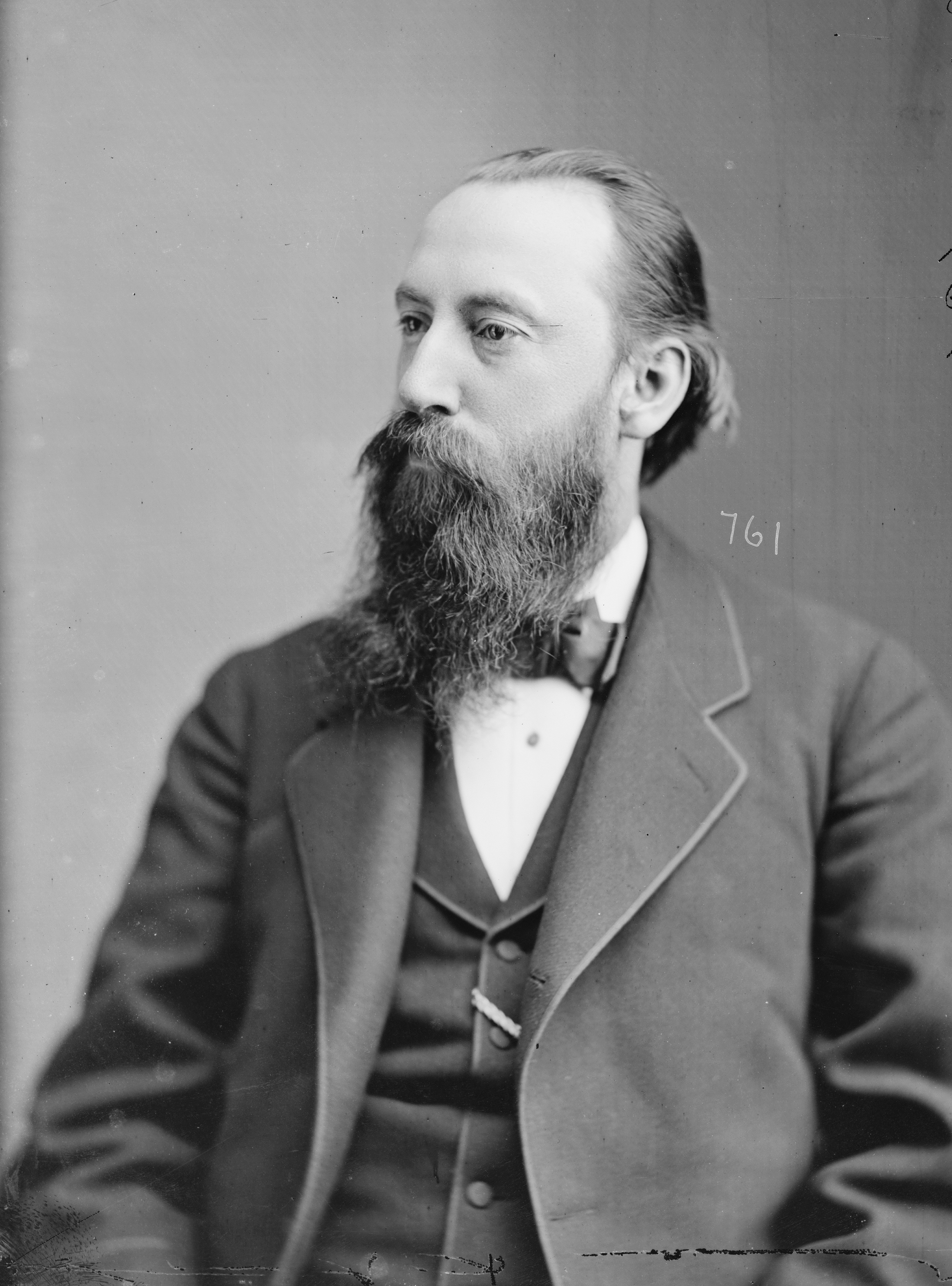 LeBaron Bradford Prince (1840-07-03–1922-12-22), Governor of New Mexico Territory(1889–1893).